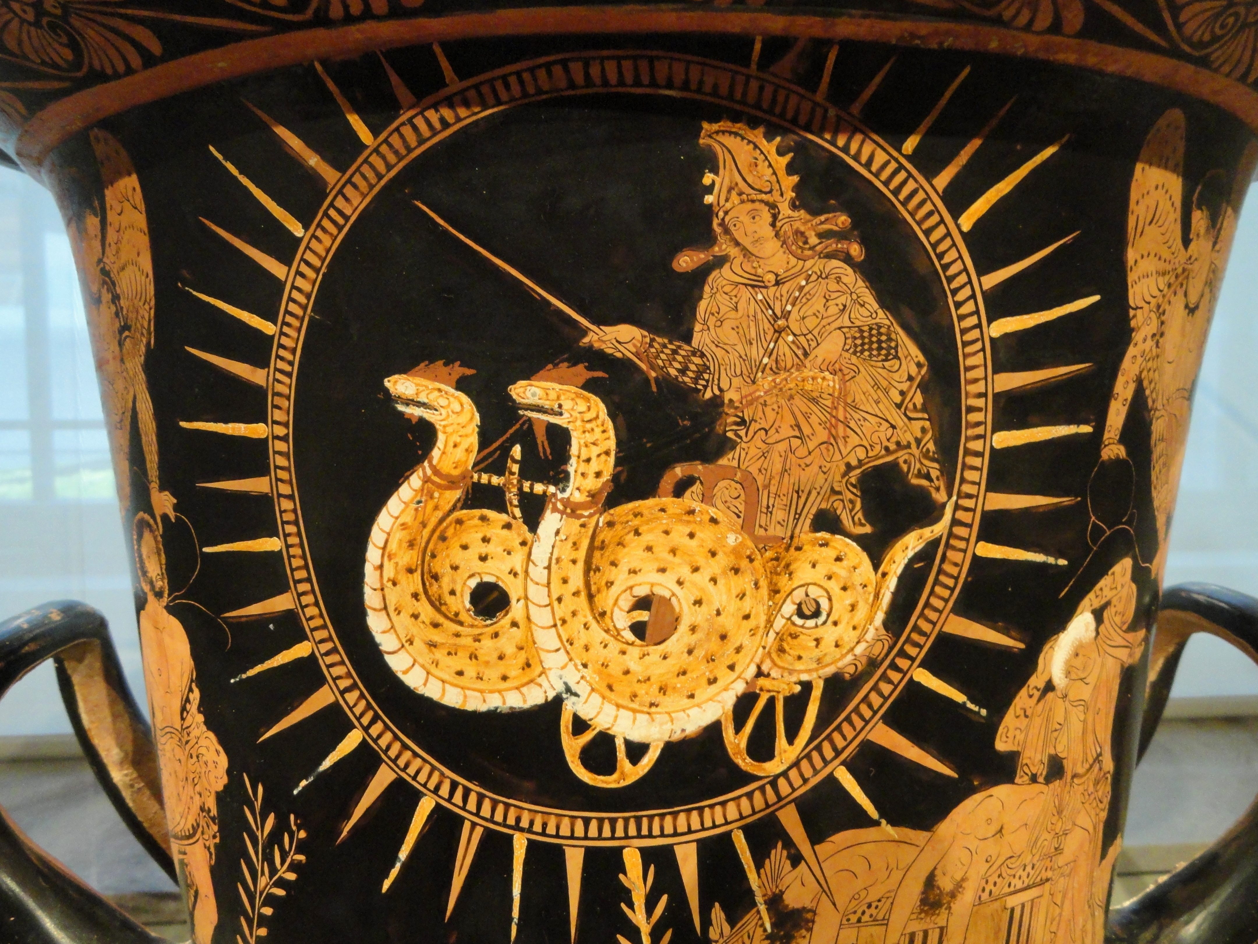 Exhibit in the Cleveland Museum of Art, Cleveland, Ohio, USA. This artwork is old enough so that it is in the public domain.